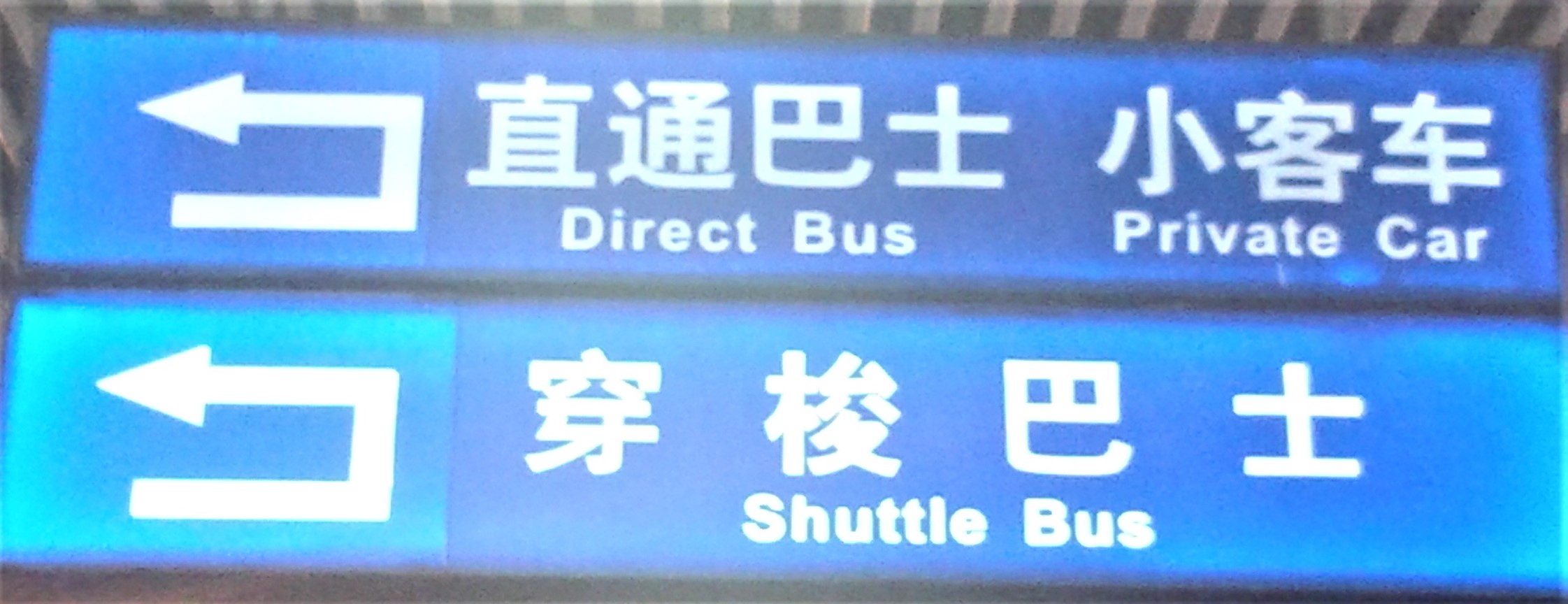 Sign at Huanggang Port Checkpoint to Direct Bus, Private Car and Shuttle Bus